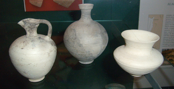 Three jars, Alalalk, Level VII, British Museum